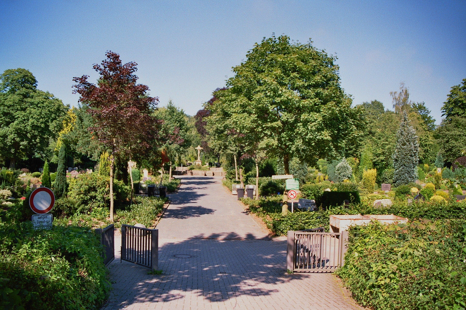 Main entrance gate of the Central Cemetery (Zentralfriedhof) in Ibbenbüren, Kreis Steinfurt, North Rhine-Westphalia, Germany.